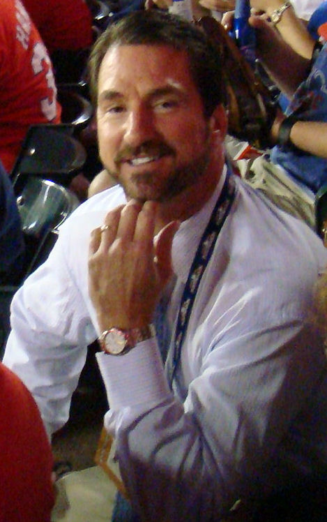 Babe Laufenberg attending the 2010 World Series